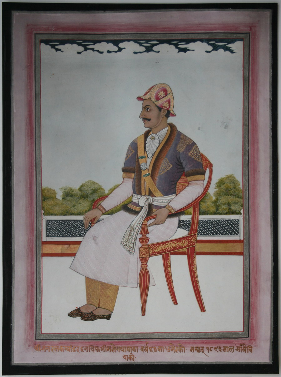 Miniature portrait painting of Prime Minister Bhimsen Thapa (1775-1839) of Nepal, dated 1839, Nepal. Opaque watercolour with tooled gold on wasli. Size: 32.7 x 24.8cm. The inscription reads (transliteration and translation) as shri janaral kamandar in cheef bheem sen thapa ka 63 varshko samwat 1896 saal maa khaichiya ko (Shri General Commander-in-chief Bhimsen Thapa, aged 63 years, painted in Samwat 1896 [1839 AD]). The title given to him, instead of prime minister, refers to his position when declaring war on the British as commander-in-chief. This portrait produced in the year of his death seems most likely to be in commemoration of him. The portrait must have served patronage for nostalgia by showing him in his prime. The painting is currently in the private collection of Peter Blohm.